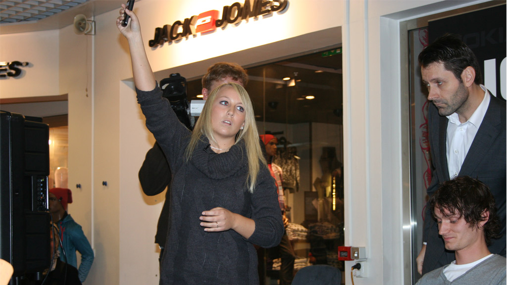 November 15th, 2009: Sonja Kristiansen from Norway, 21 years old, sets a new world record in texting sms. The record time is 37.28 seconds, typing the official text: The razor-toothed piranhas of the genera Serrasalmus and Pygocentrus are the most ferocious freshwater fish in the world. In reality they seldom attack a human.